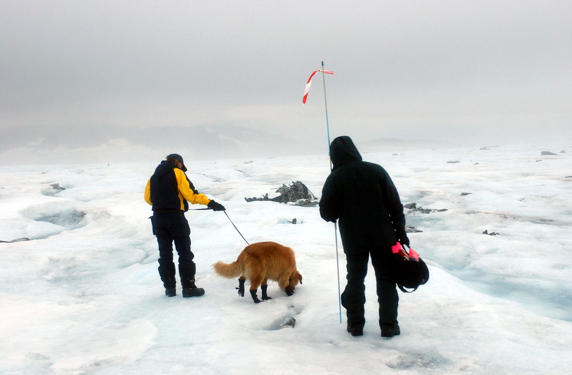 Greenland (Aug. 7, 2004) - Master at Arms 1st Class Rudy Hutchinson and Susan Frank, one of the volunteers from Bucks County Search and Rescue are led by cadaver dog, Tucker during the recovery of a Navy P-2V Neptune aircraft that crashed in Greenland in 1962. The Navy is currently conducting recovery operations in Greenland to bring back any human remains. U.S. Navy photo by Photographer’s Mate 2nd Class Jeffrey Lehrberg (RELEASED)